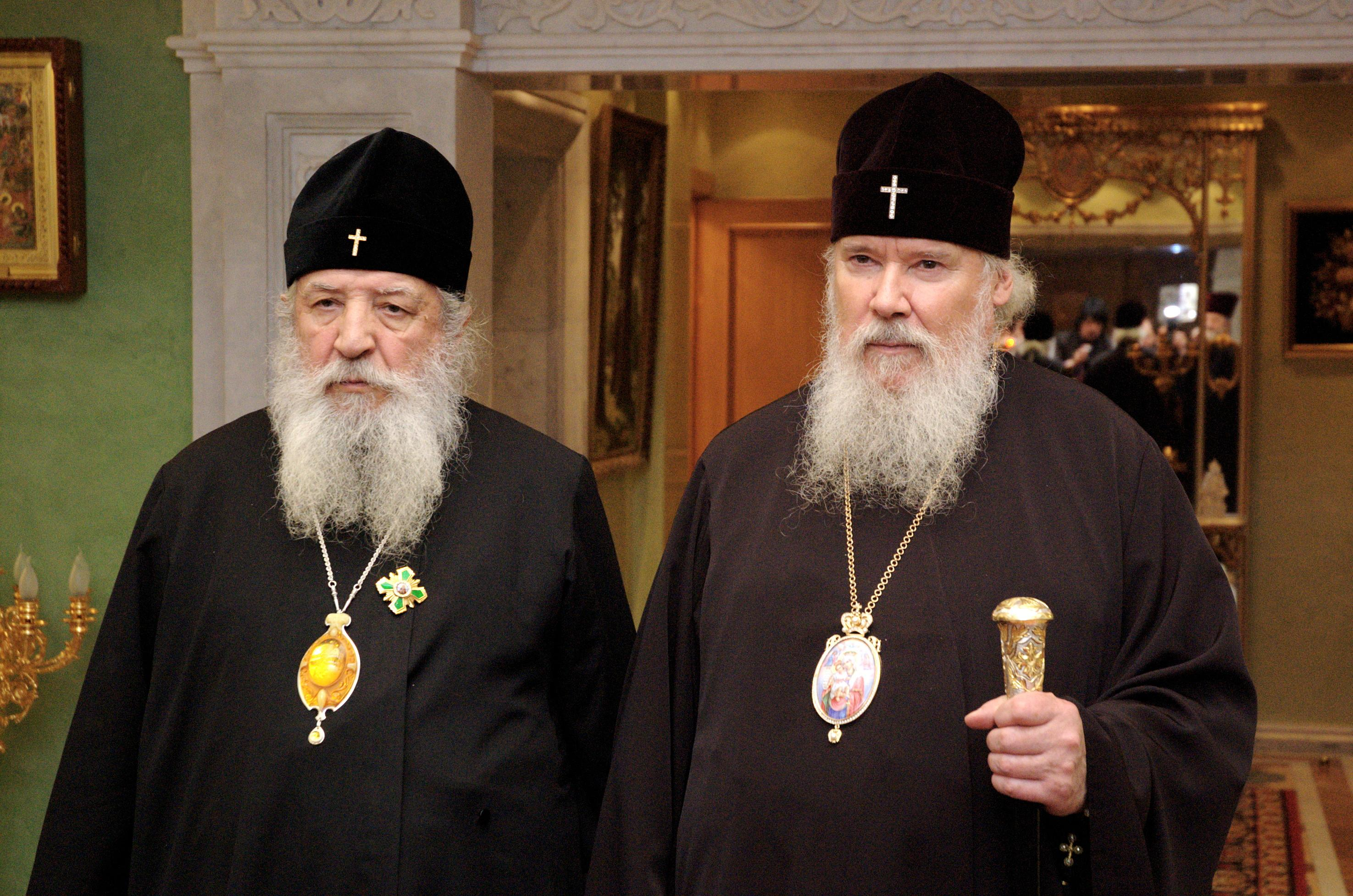 Patriarch Alexius and metropolitan Laurus in the residence of Patriarch of Moscow and All Russia in Peredelkino (Moscow), February 28, 2008.